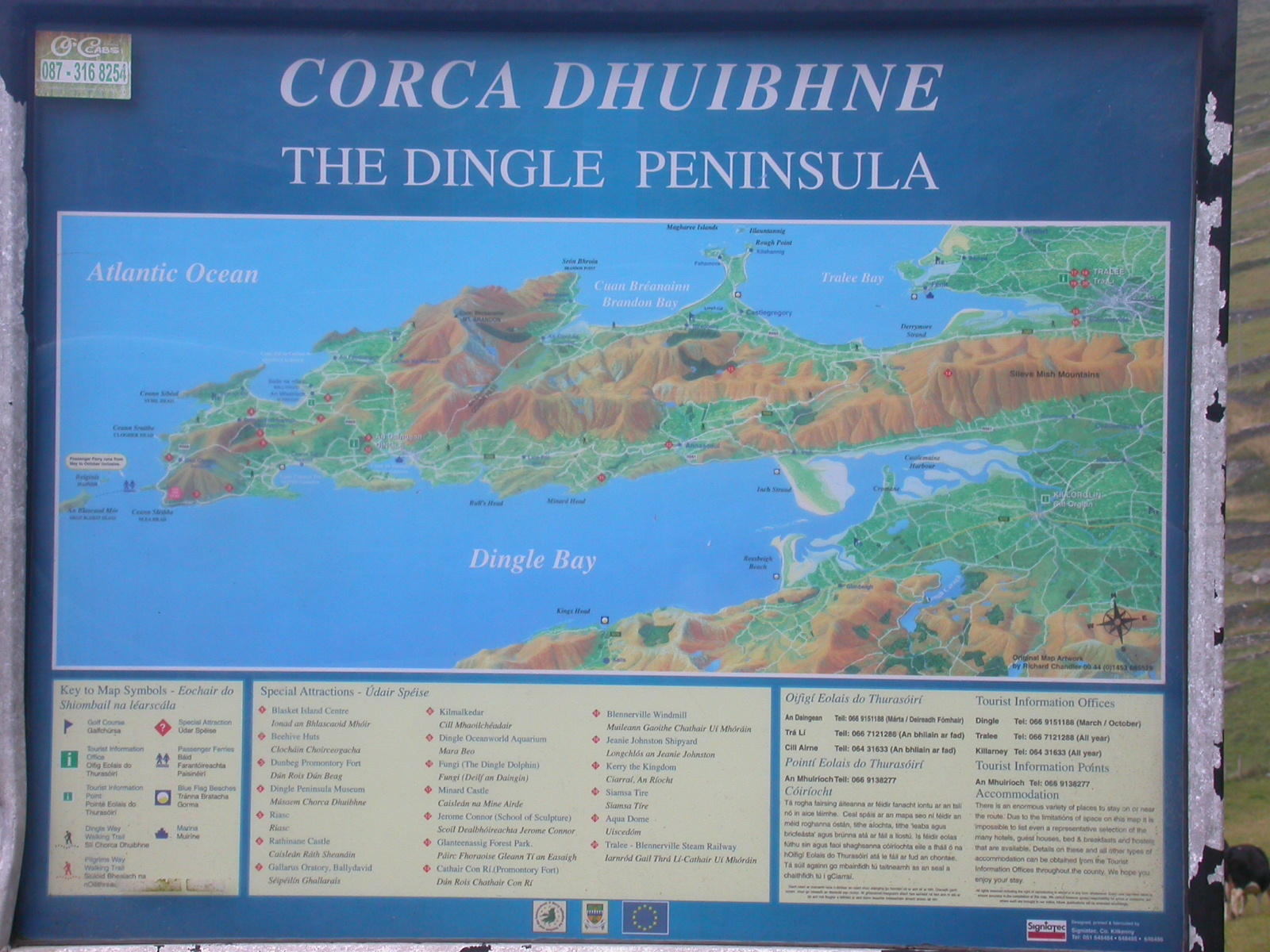 Mapa da Península de Dingle